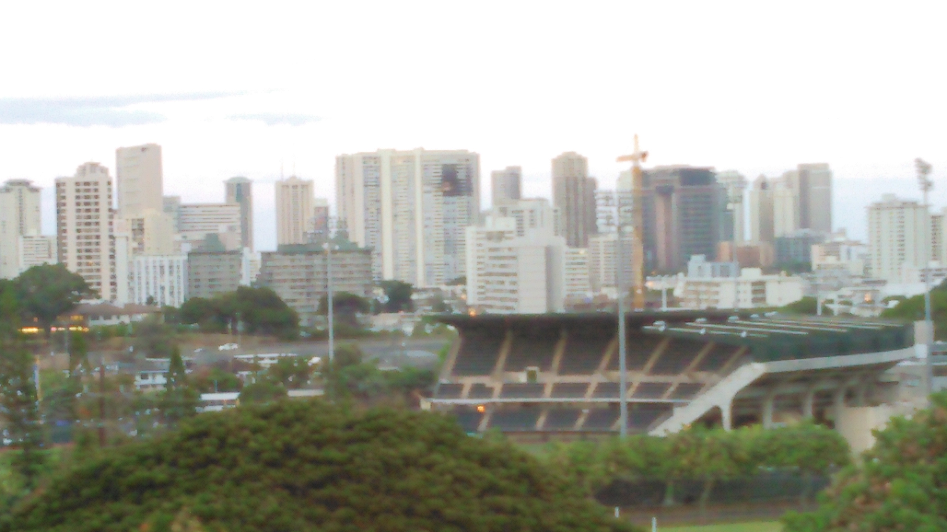 The Honolulu skyline, with the Marco Polo building scarred by the fire in the middle. Seen from UH Manoa Hale Ilima.